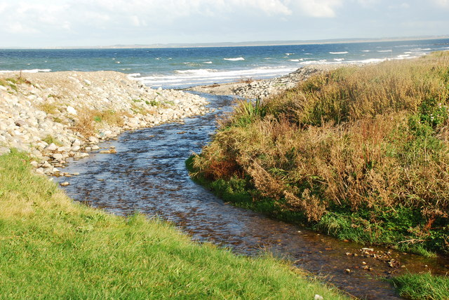 Afon Desach The small Afon Desach flows into the sea. The coast of Anglesey forms the horizon.